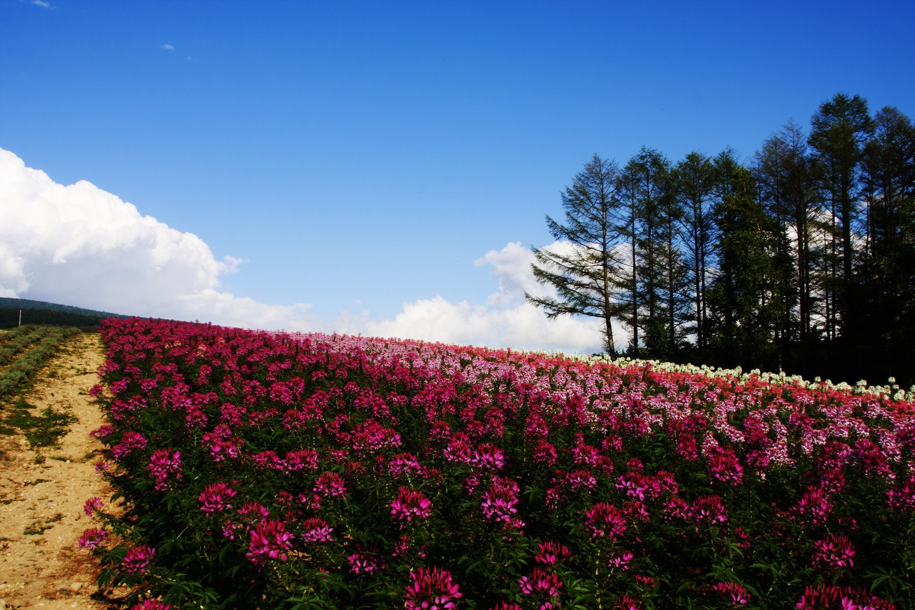 Higashirokugo, Furano, Hokkaido Prefecture 076-0162, Japan